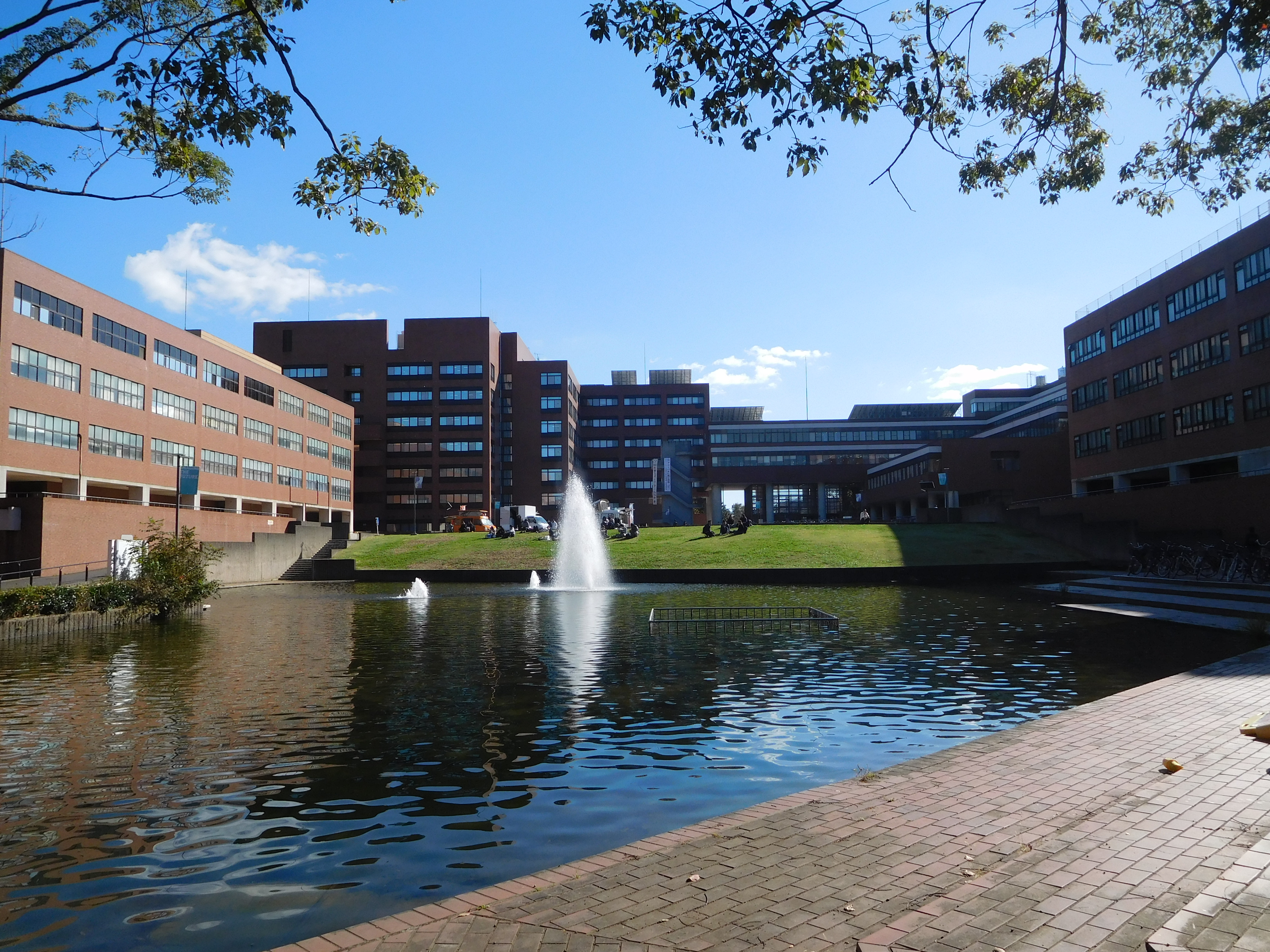 This is a spring of University of Tsukuba in Ibaraki prefecture, Japan.